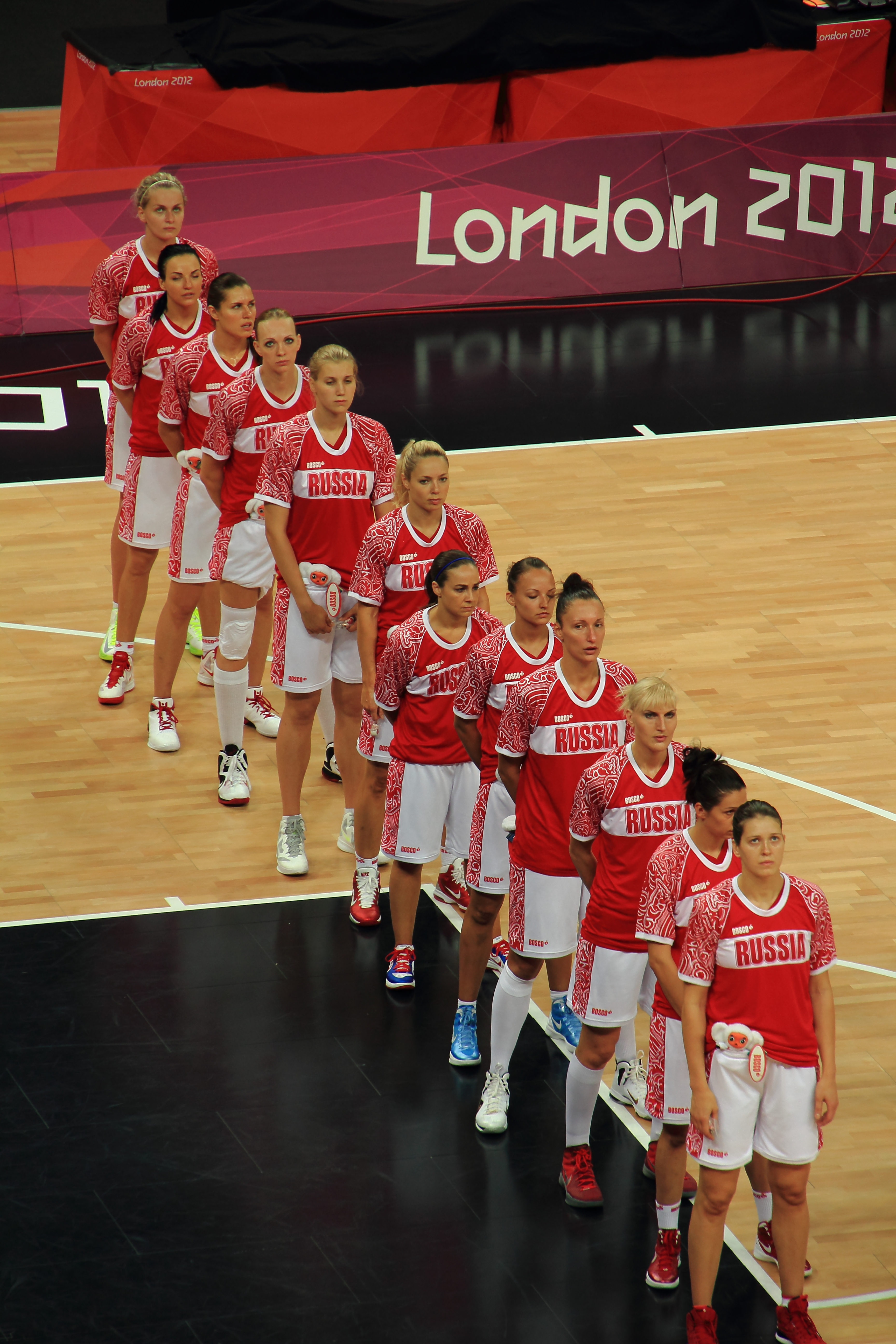 The Russian Womens Basketball team line-up to sing their national anthem at this Group B preliminary game against Australia